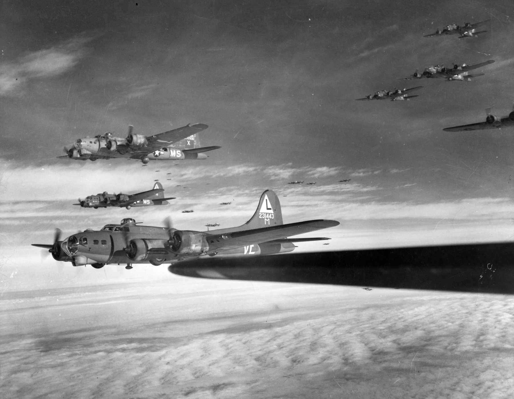 U.S. Army Air Force Boeing B-17G Flying Fortress bombers of the 381st Training Group from RAF Ridgewell, en route to a target over Nazi-occupied Europe. The aircraft marked "VE" belong to the 532nd Bomb Squadron, the ones marked "MS" to the 535th BS. In front is B-17G-20-BO 42-31443 ("Friday the 13th"). This aircraft was shot down by German fighters on mission to Oschersleben on 22 February 1944. The plane was shot down by fighters near Munster in Germany on 22 February 1944 and crashed near Bielefeld. , four of the crew became POWs, six were killed (MACR 2930).